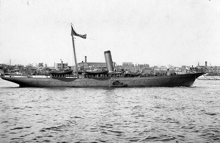 USS Gloucester was a gunboat in the United States Navy. Formerly J. P. Morgan's yacht Corsair, Gloucester was built in 1891 by Neafie & Levy in Philadelphia, Pennsylvania and acquired by the Navy on 23 April 1898. She was converted to a gunboat and served during the Spanish American war in Cuban waters in 1898 with the North Atlantic Fleet, Blockading Station.